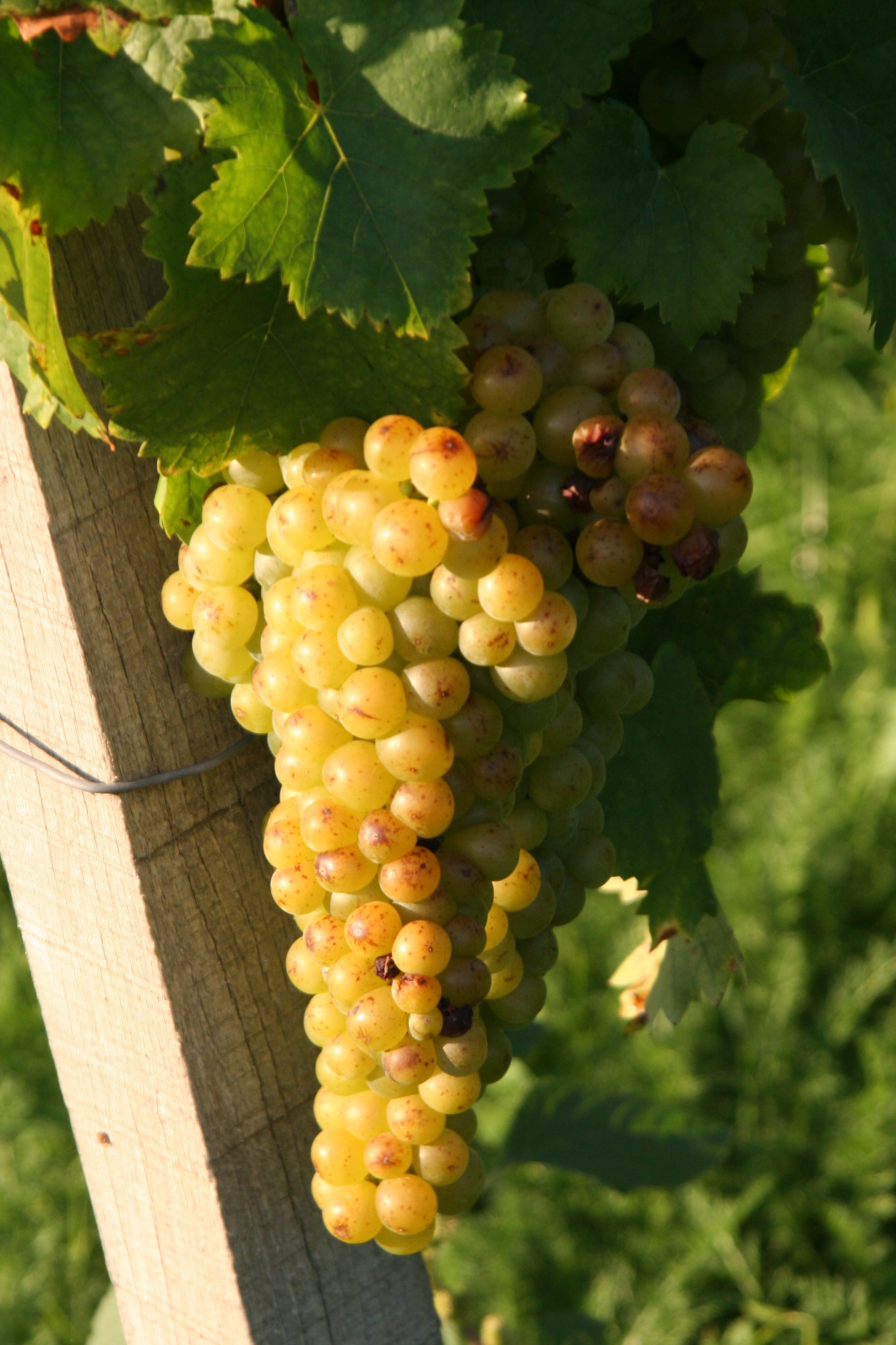 Grapes and leaves of the grape variety Gelber Muskateller, photographed at the viticulture trail on the Schemelsberg hill in Weinsberg